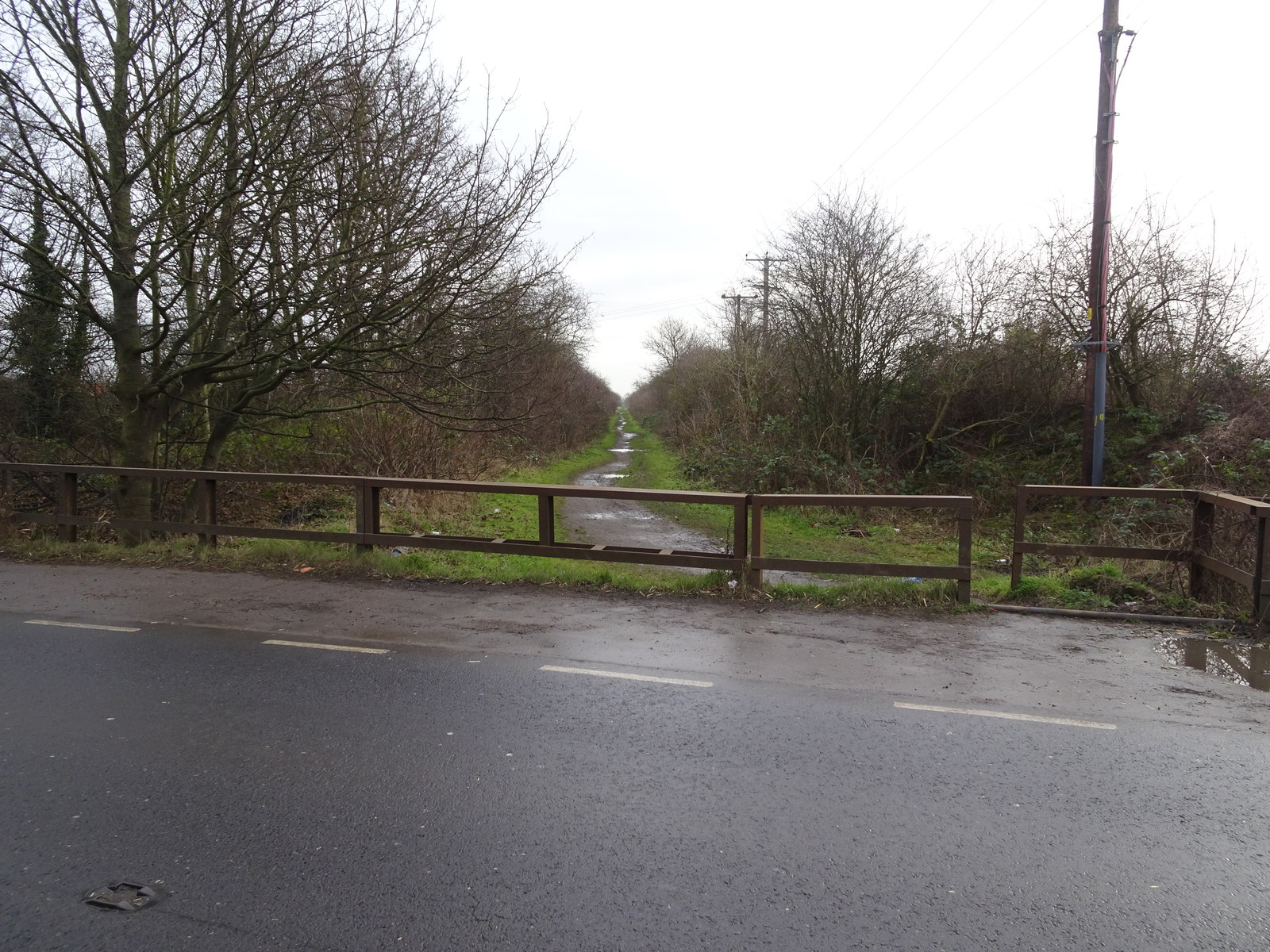 Hedon Racecourse railway Halt (site), Salt End, East Riding of Yorkshire, England.Opened in 1888 by the North Eastern Railway, on the line from Hull Paragon to Withernsea, this station closed in 1909. It reopened briefly as Hedon Speedway Halt in 1948 but closed again in 1949. View east towards Hedon and Withernsea. Both platforms were extant when this image was taken, hidden by the undergrowth.